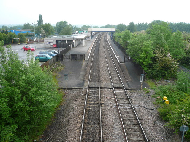 Alfreton railway station Original description: Alfreton Station - View from B6019 Railway Bridge